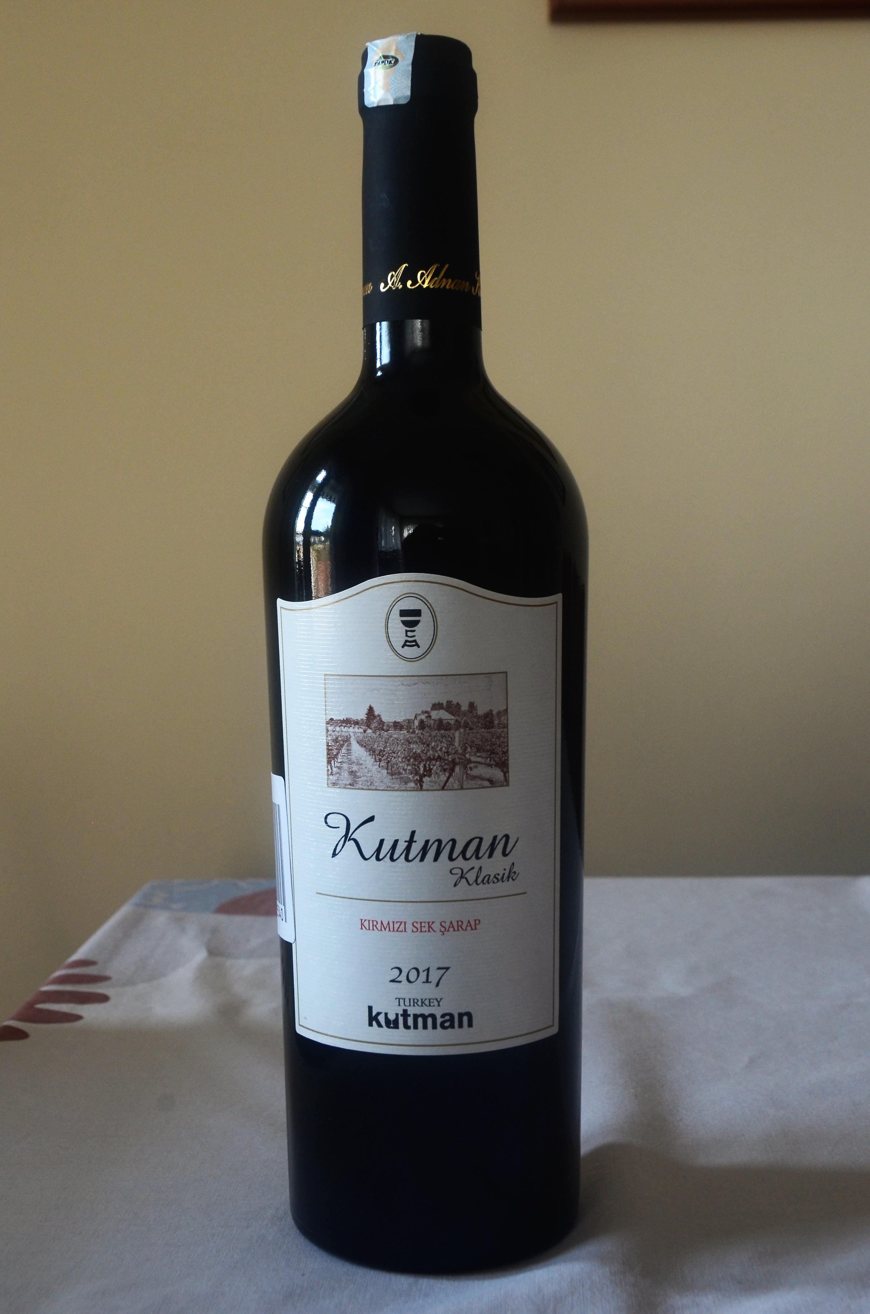 Kutman sek red wine 2017